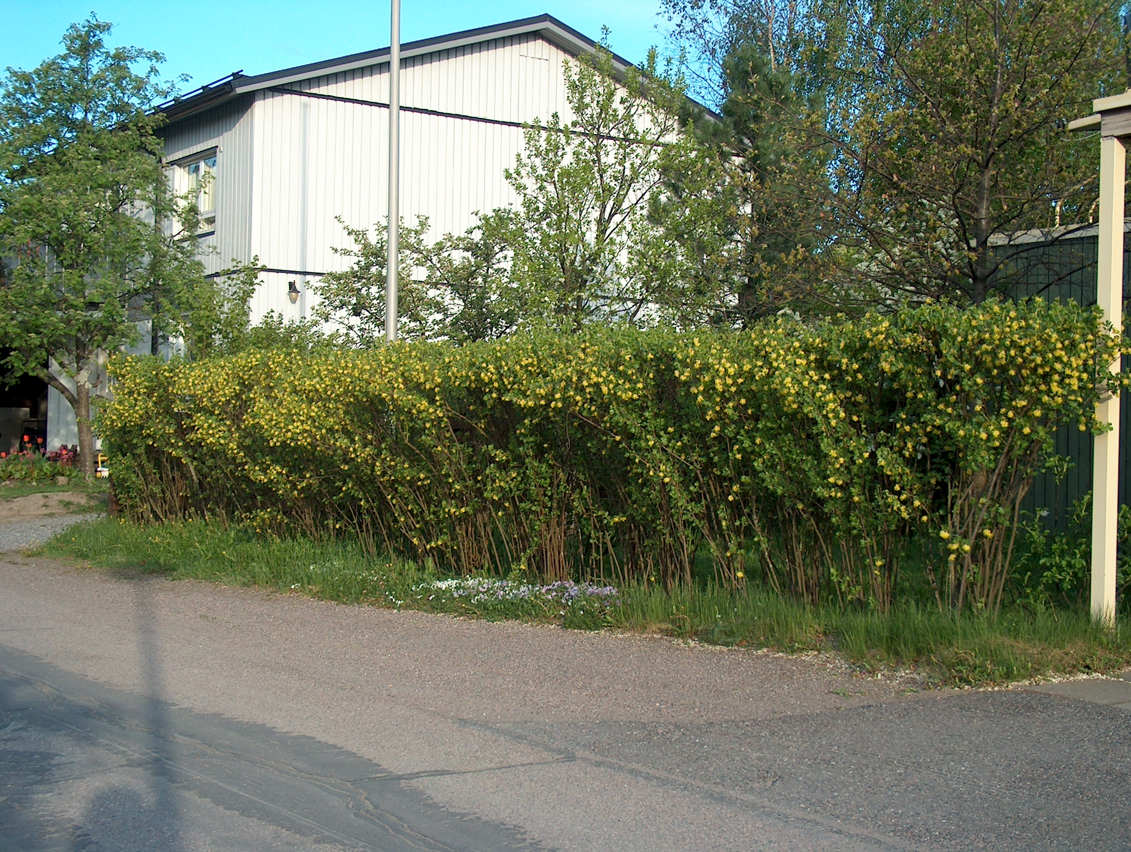 Golden Currant (Ribes aureum) hedge — blooming in May in Finland. Garden in Kerava, Finland